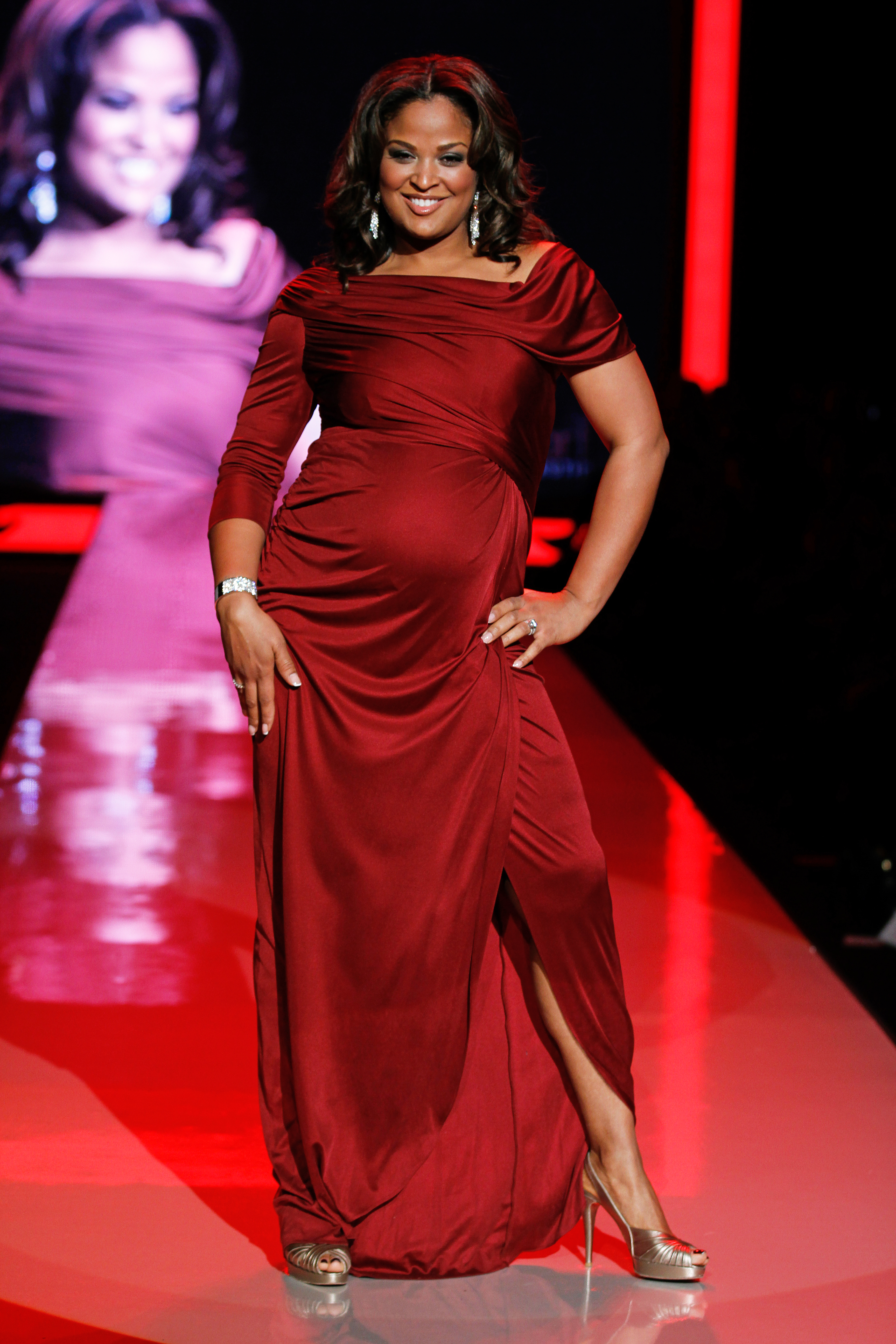 Laila Ali in A Pea in the Pod